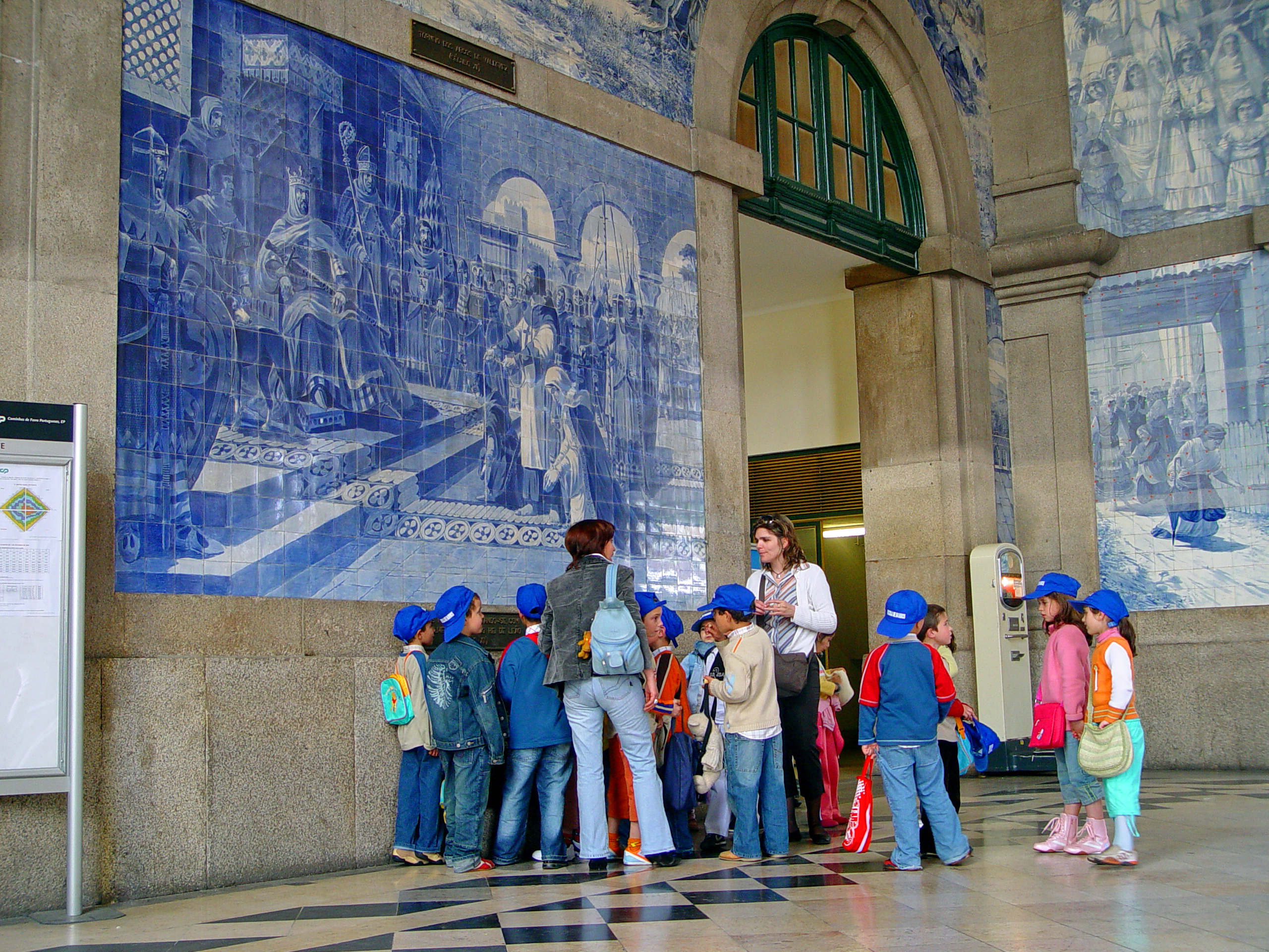 Azulejo panel in the São Bento Train Station in Porto (Portugal)